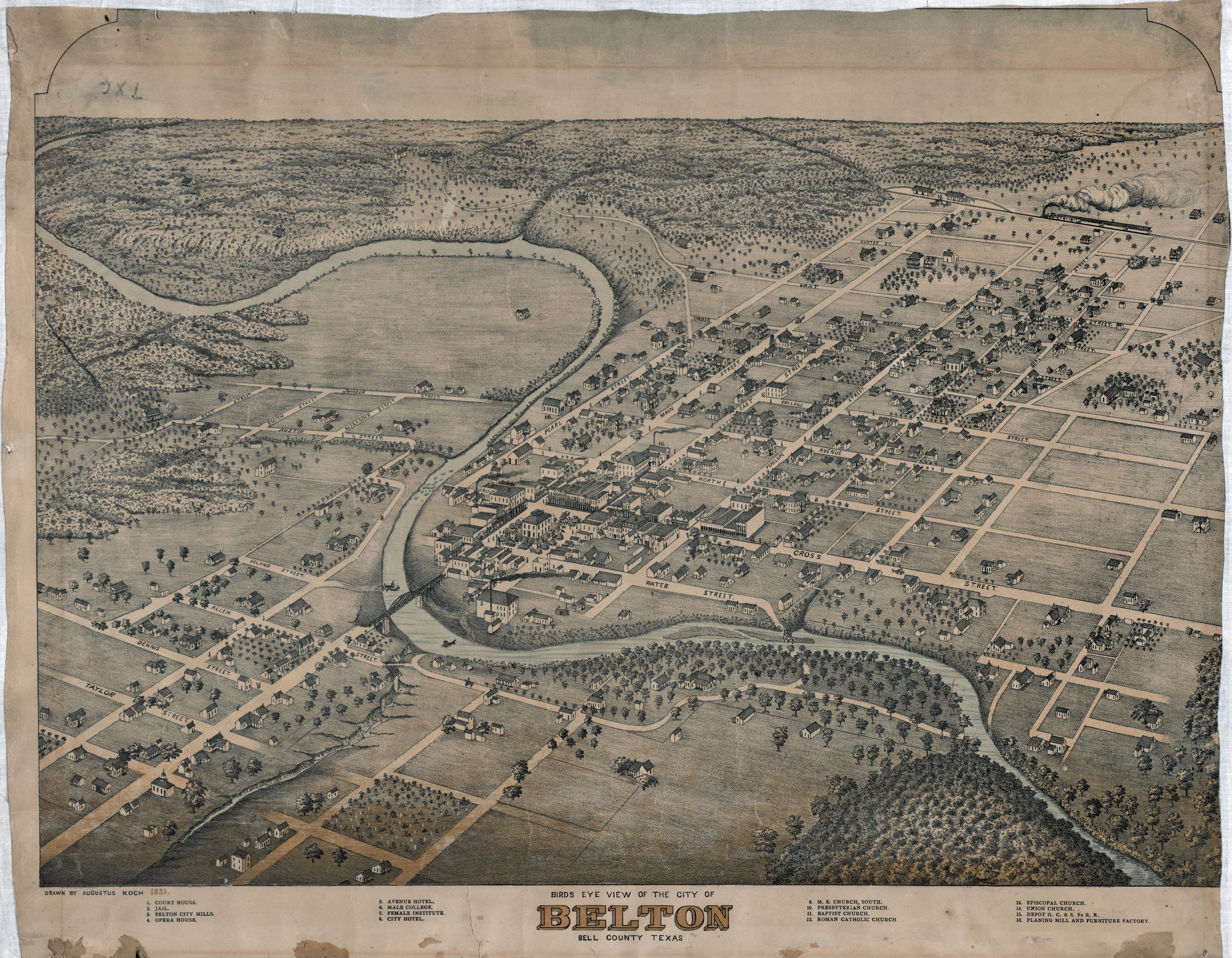 Belton, Texas in 1881. Birdrsquos Eye View of the City of Belton, Bell County Texas, 1881. Toned lithograph, 17.5 x 23 in. Lithographer unknown. Center for American History, The University of Texas at Austin.